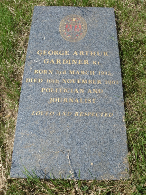 Grave of George Gardiner (politician) at Brompton Cemetery.